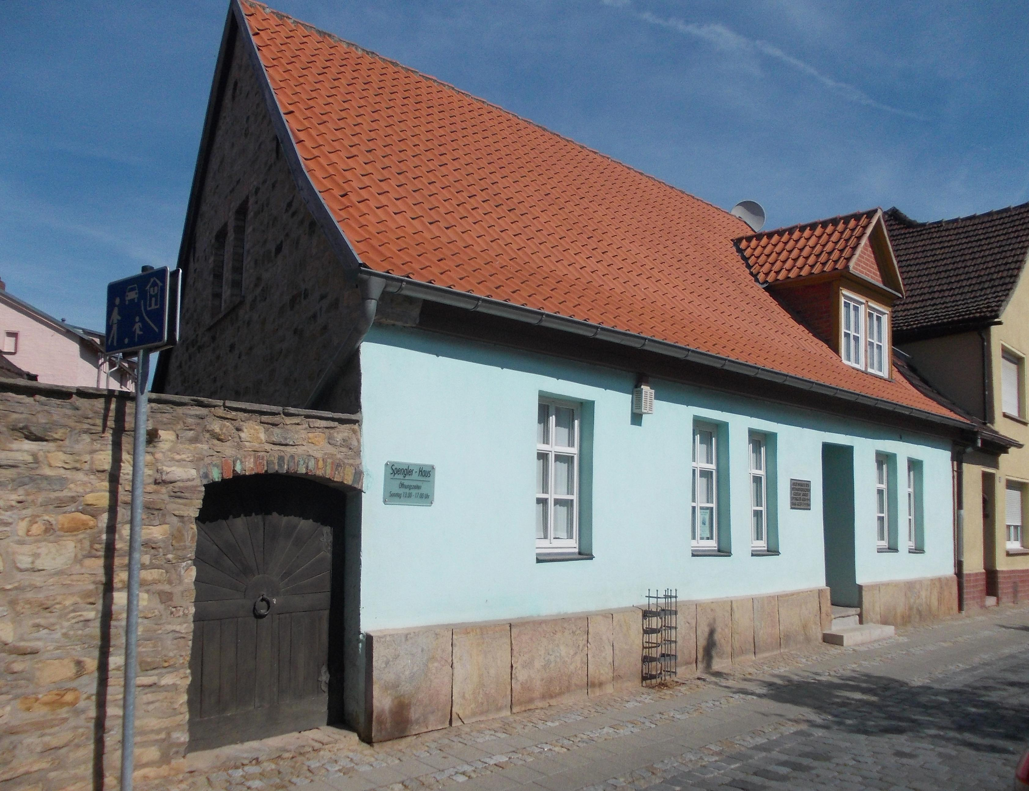 No. 56, Hospitalstrasse in Sangerhausen (Mansfeld-Südharz district, Saxony-Anhalt), the house where the local historian Gustav Adolf Spengler (1869-1961) lived